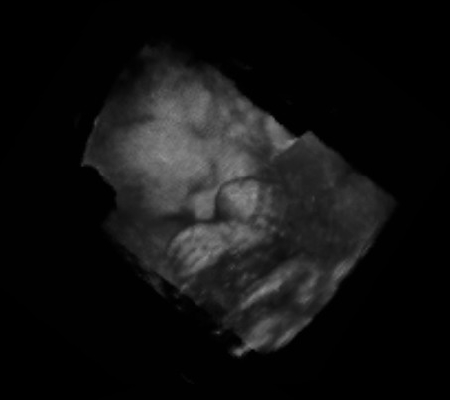 Sonographic 3D-Image of a fetus. Uploaded from Dutch wikipedia, created by [Gebruiker:Mvandergaast] Description on original page